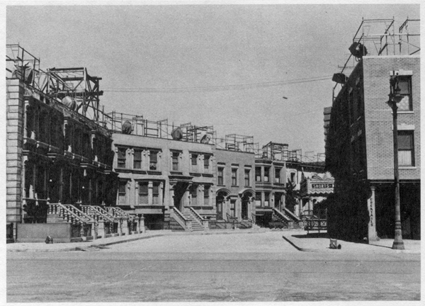 A shot of the original Brownstone street on the former Columbia Ranch